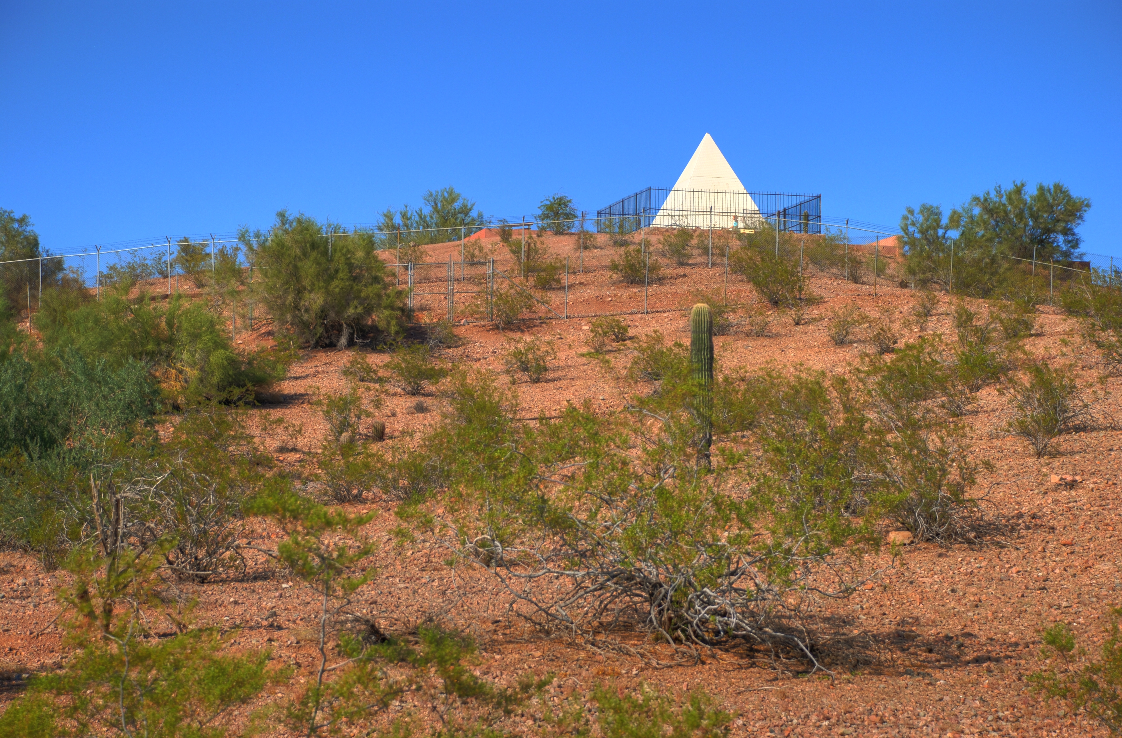 George W. P. Hunt's tomb in Tempe, Arizona